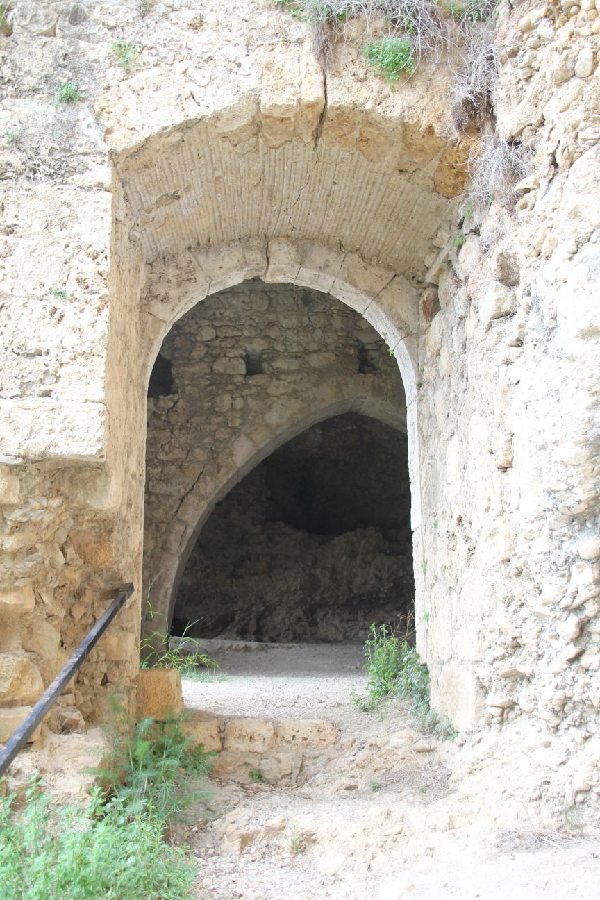 Troglodite church, Sant Miquel de la Roca, Crespià, Catalonia